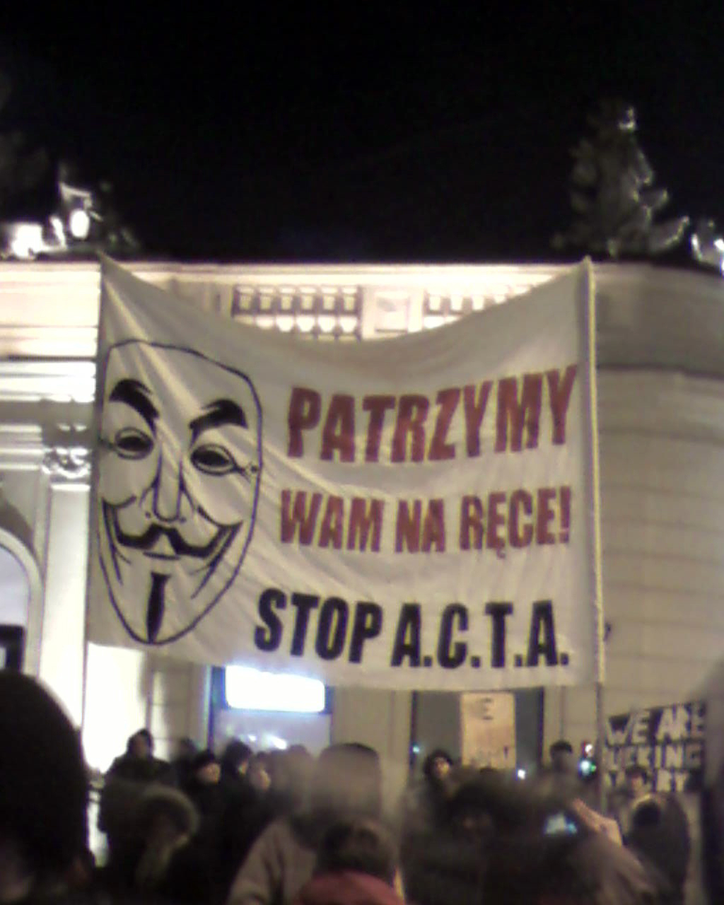 Anti-ACTA rally in Warsaw